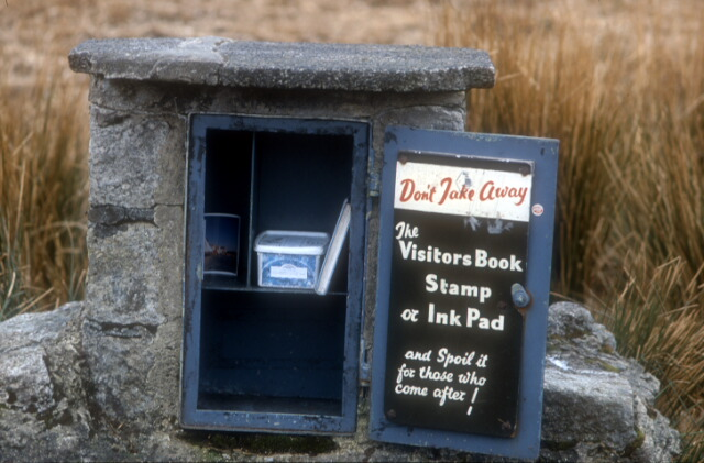 Inside the Cranmere Pool letterbox All the necessary equipment for proper letterboxing is carefully stored in the Cranmere Pool letterbox : a book with blank pages, a stamp, and an ink pad. Letterboxing is a very popular activity in the Dartmoor area.